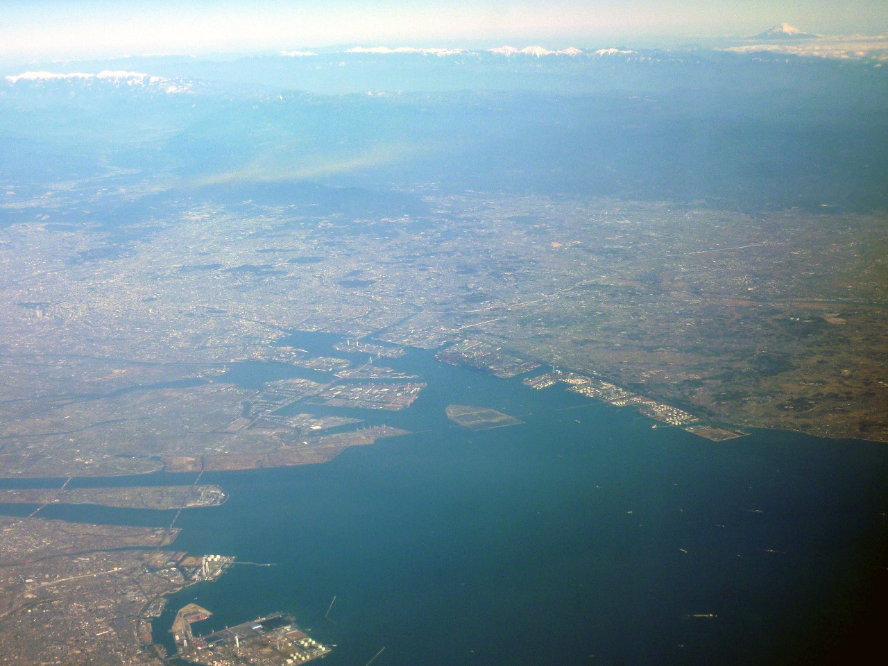 Nagoya, Aichi